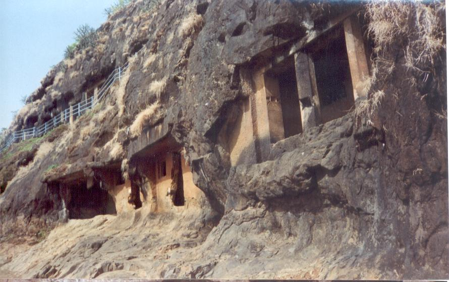 Pandev Lena Caves